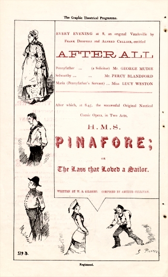 Scan from 1879 programme of an unauthorised production of After All!, Public domain